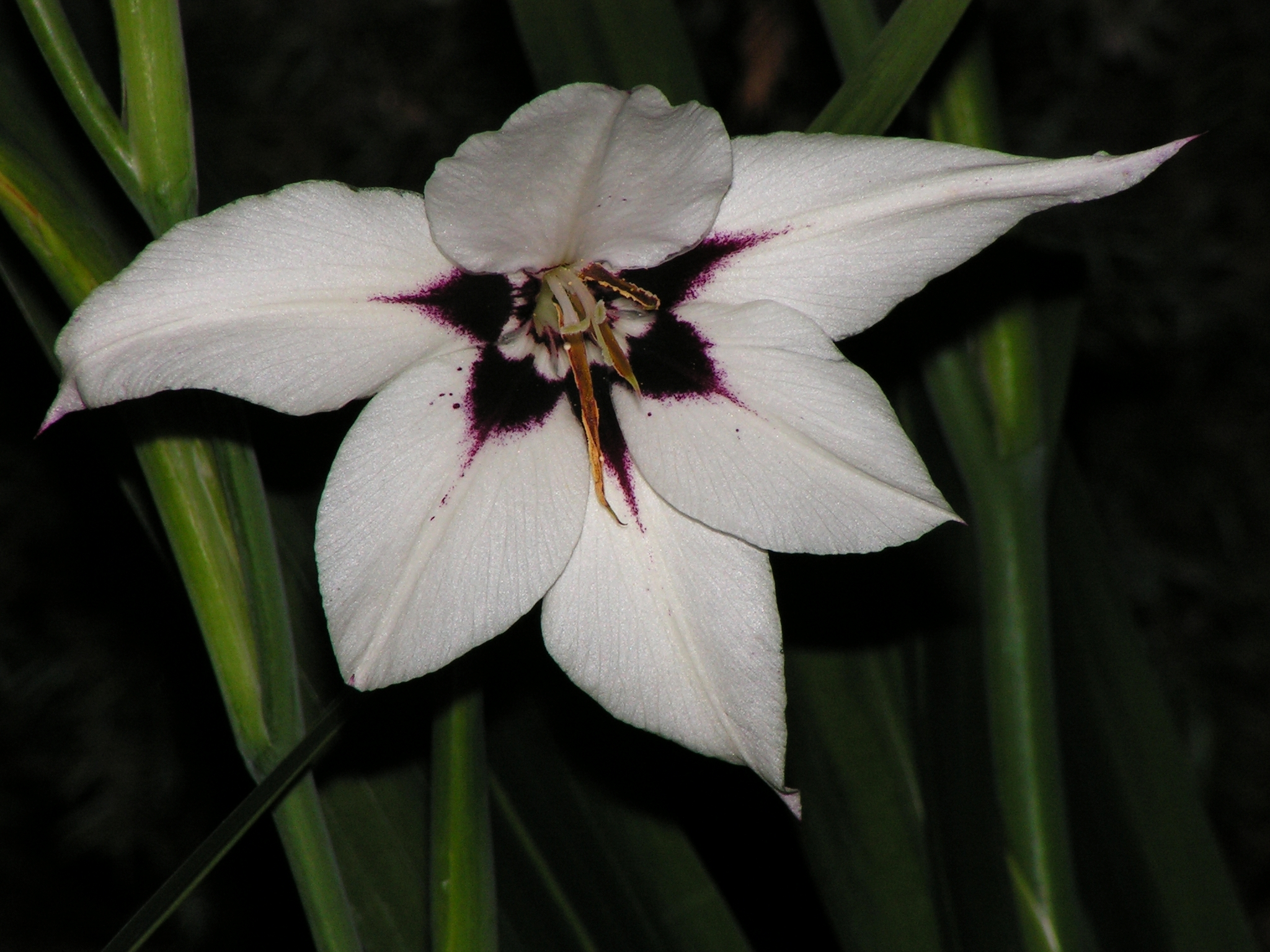 The flower of cultivated Gladiolus murielae. Moscow region, Russia.